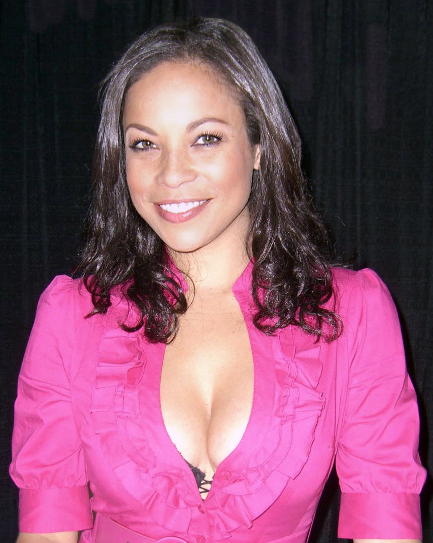 Playboy Playmate and actress Daphnee Lynn Duplaix at the Big Apple Convention in Manhattan. Photographed by Luigi Novi. This photo may only be used if the photographer is properly credited. (See Licensing information below.)